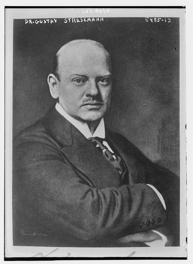 German Chancellor Gustav Stresemann (1878-1929)